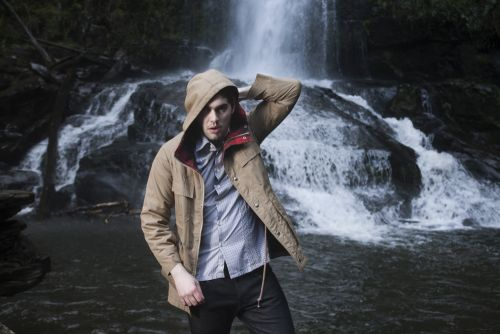 muscles musician promotional photo 2010 waterfall